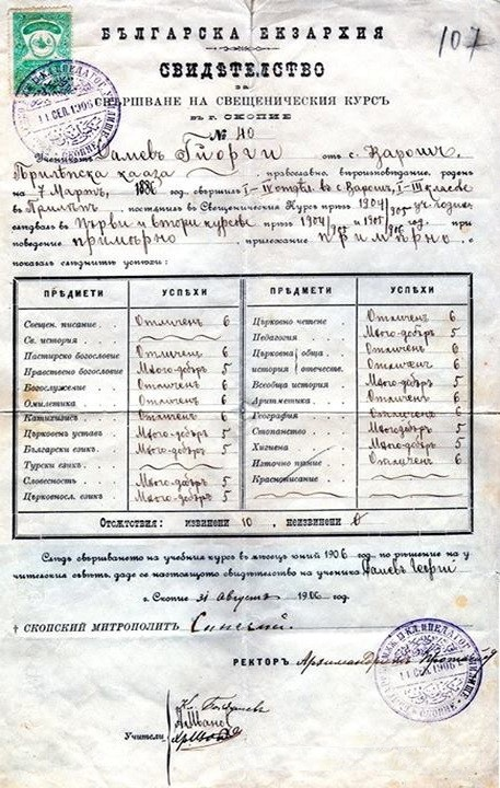 School Certificate from Skopje Bulgarian Priest School of Georgi Damev 1906